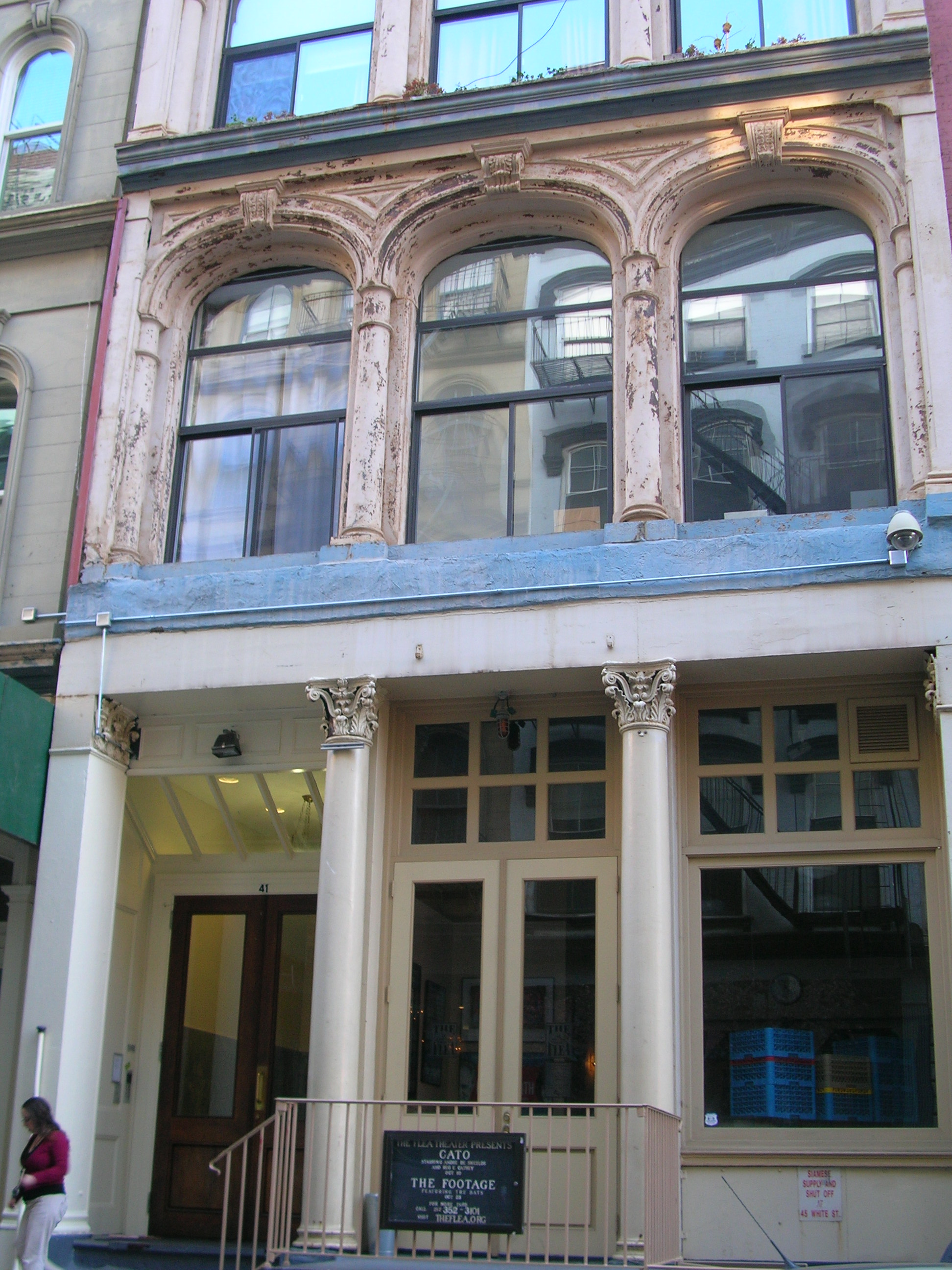 This photo is of Wikis Take Manhattan goal code H19, The Flea Theater.